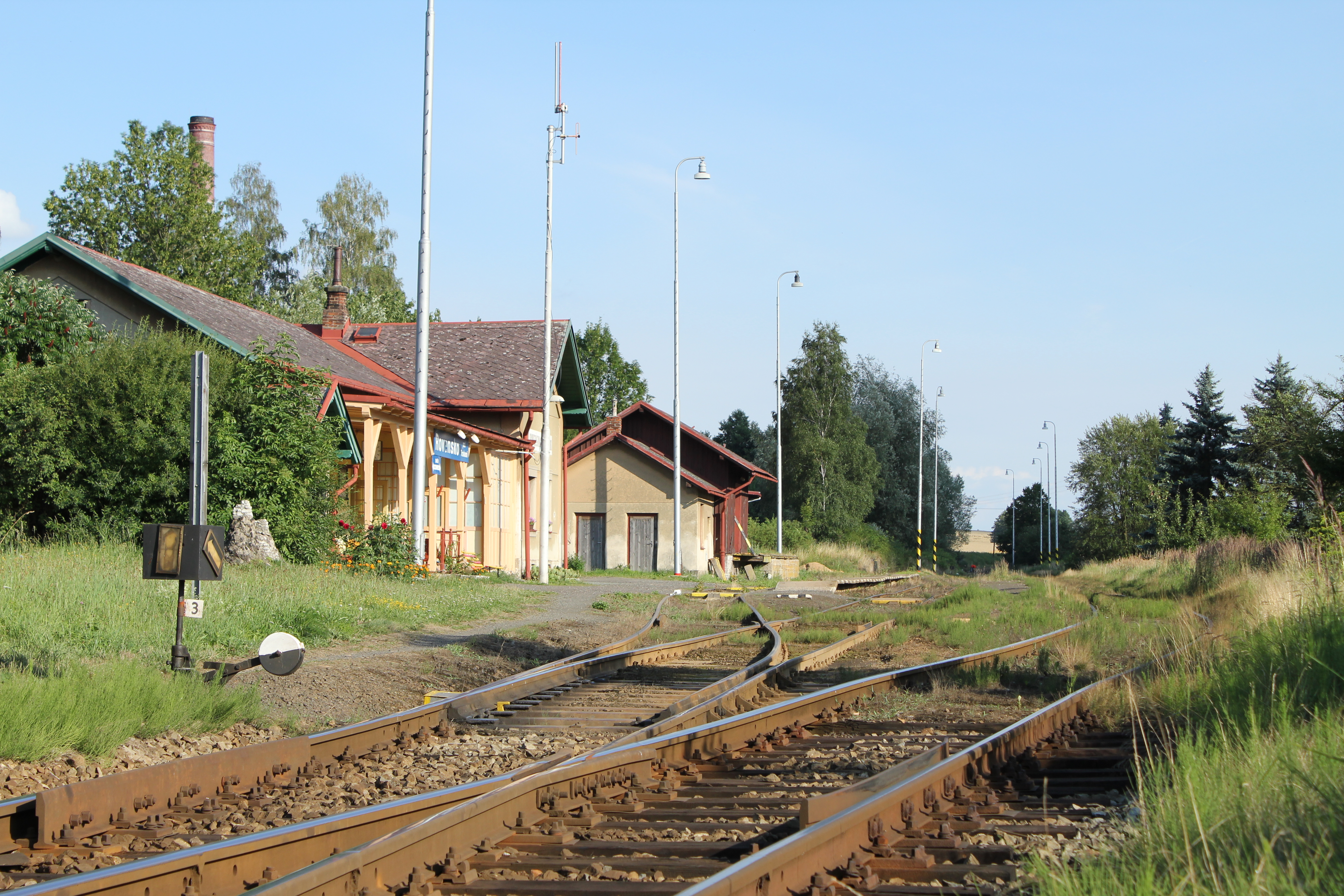 Train station in Rovensko pod Troskami